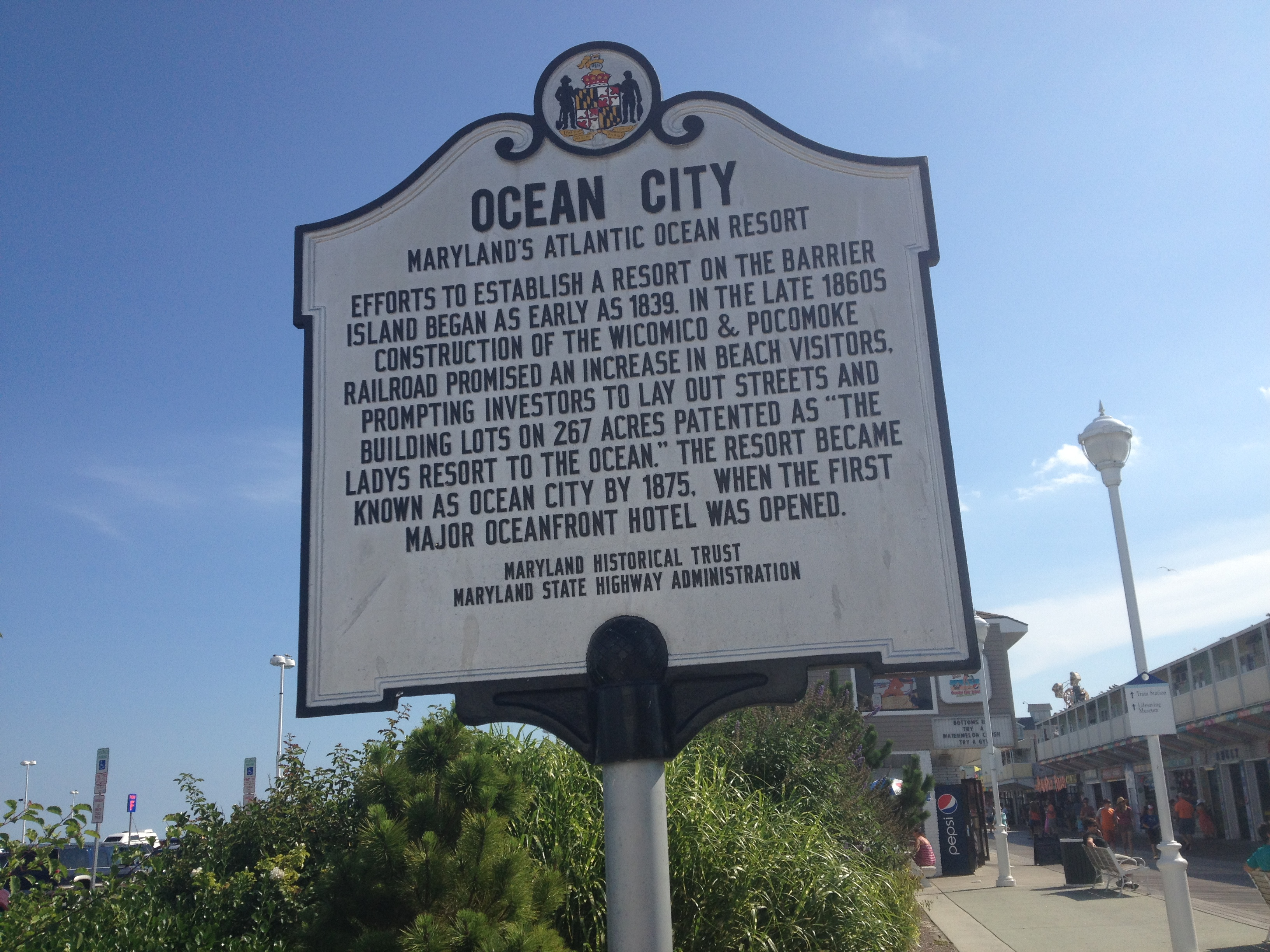 A Maryland historical marker showing the history of Ocean City, Maryland. This marker is located on the boardwalk near the Ocean City Inlet.